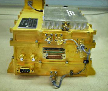 The Electra Lite Transponder for the MSL